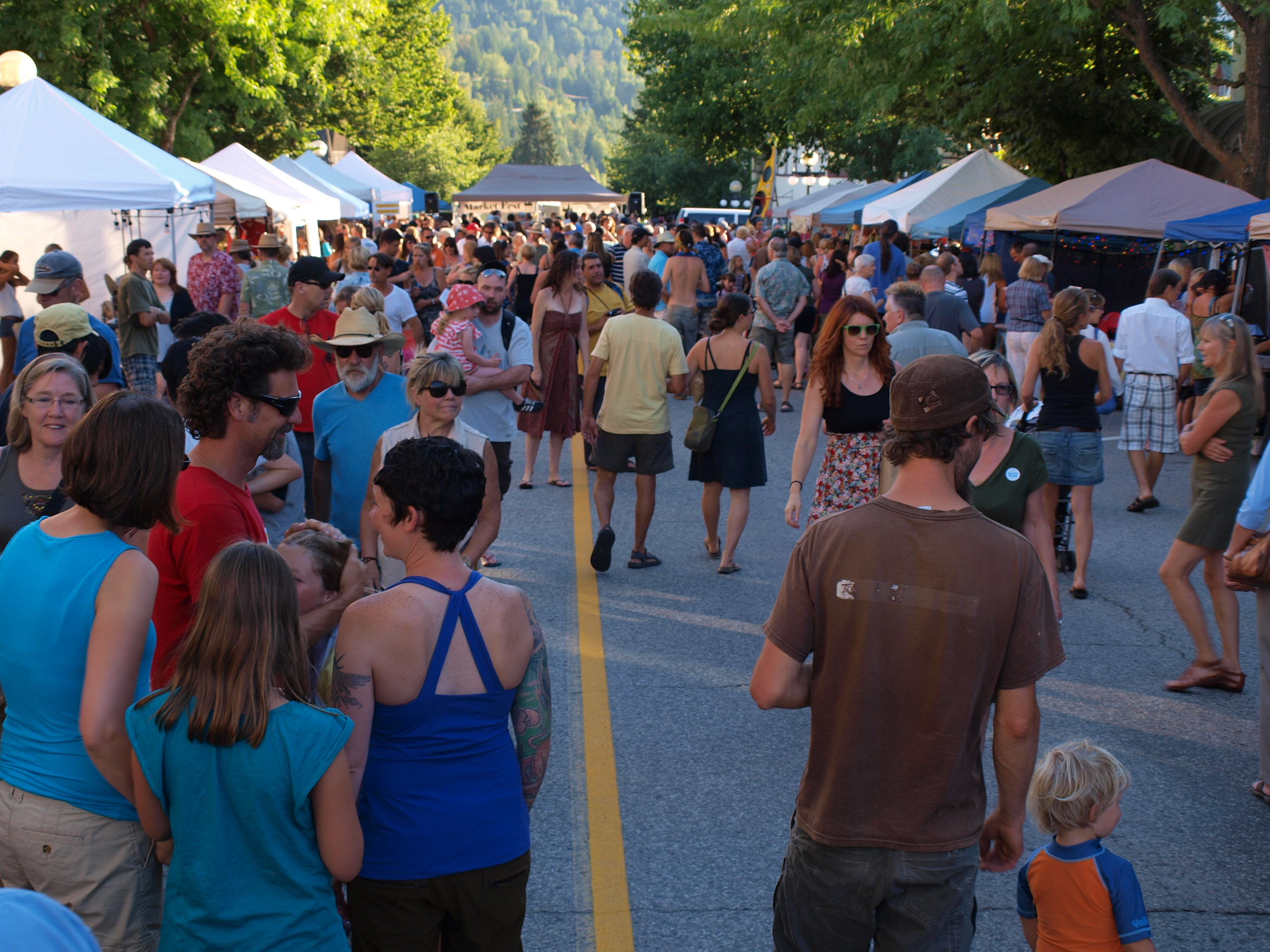 Marketfest night